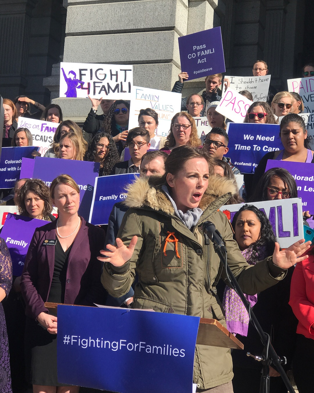 Senator Kerry Donovan speaks to a crowd about the FAMLI bill.